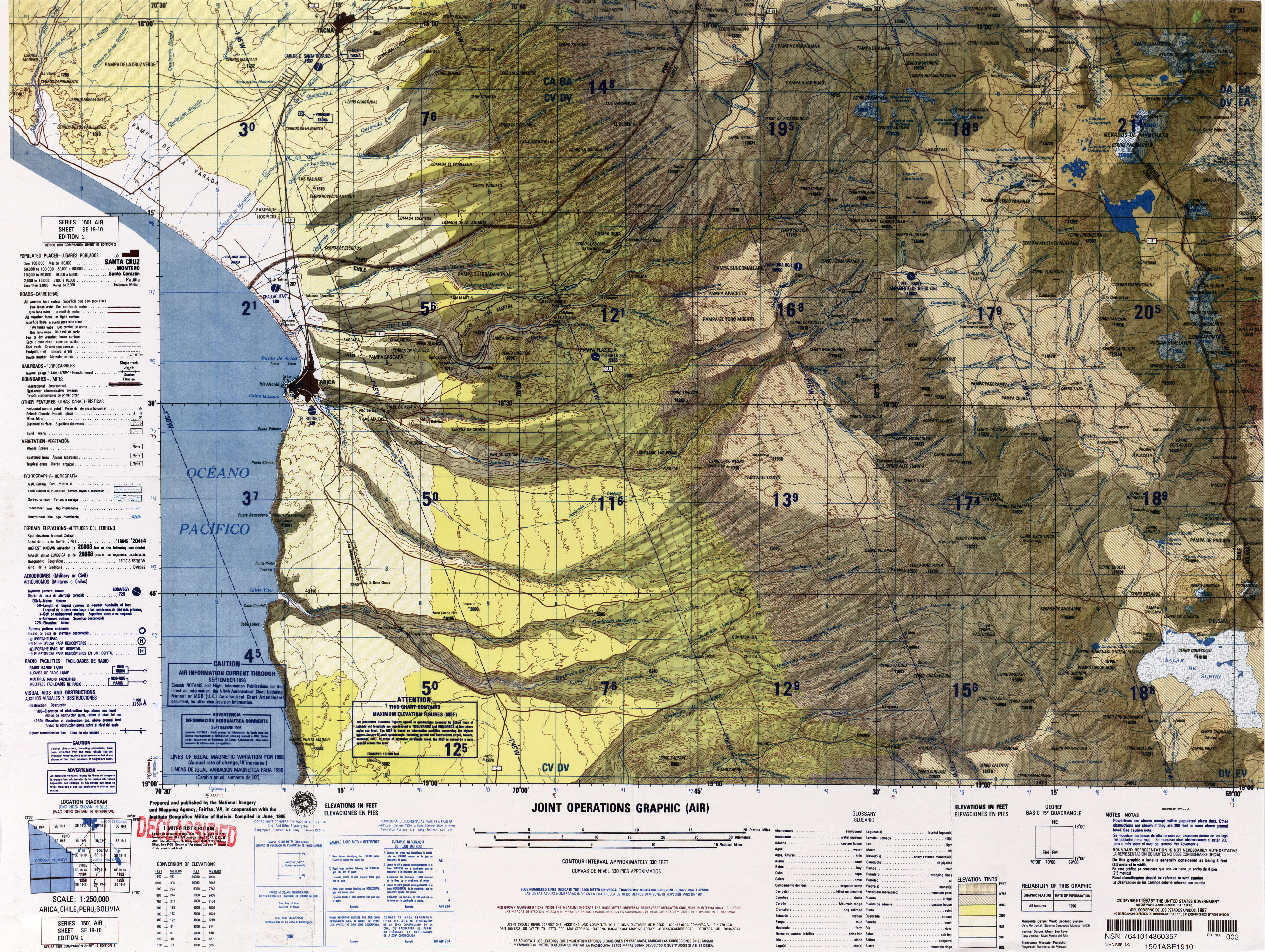 Arica, Tacna